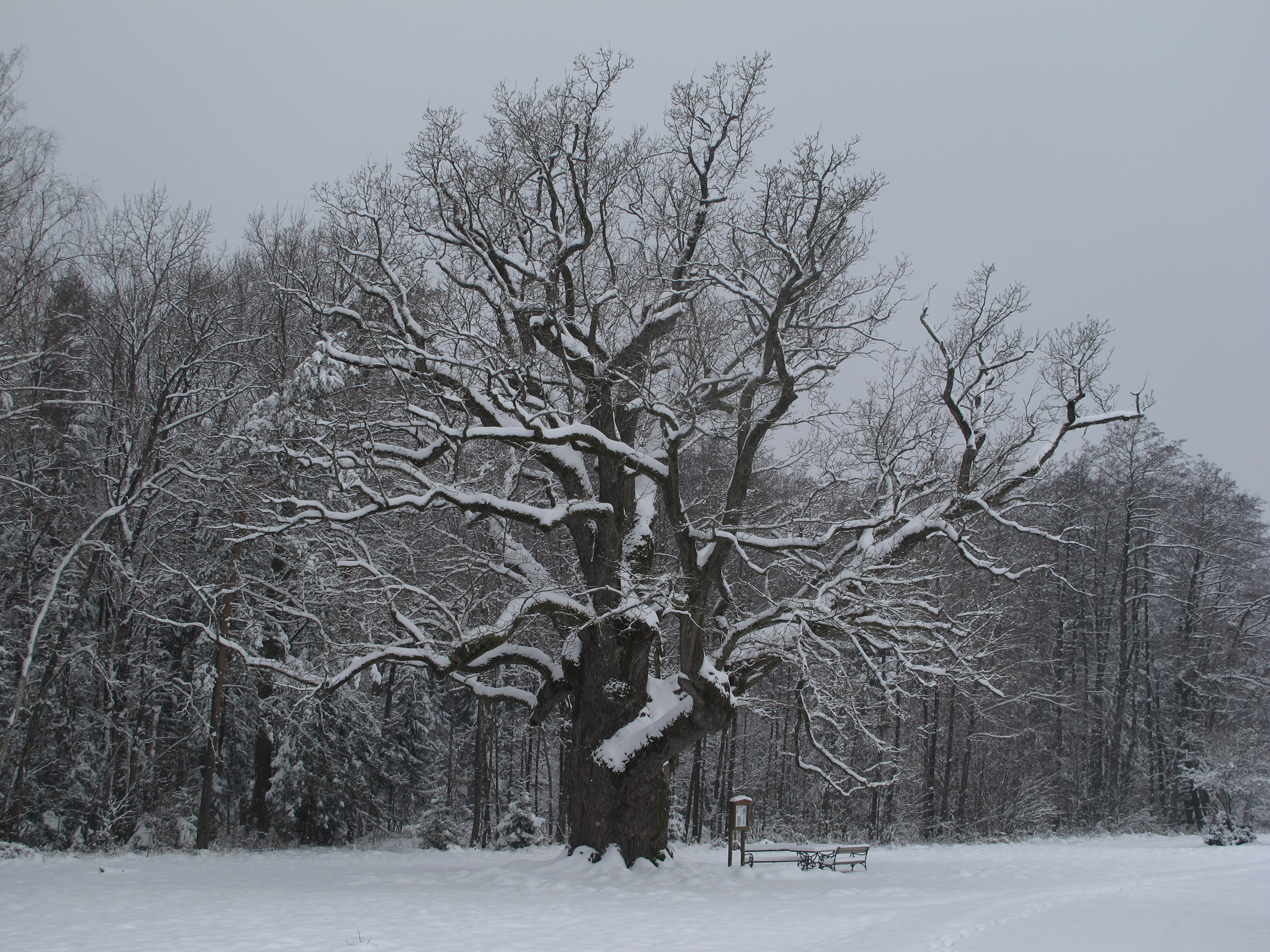 Oldest Oak in Europa